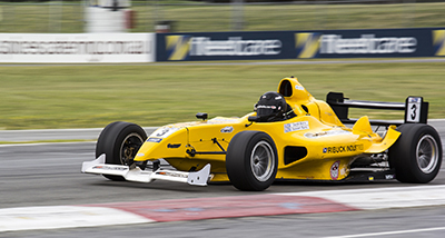 2014 AUSF1000 Champion Stewart Burns